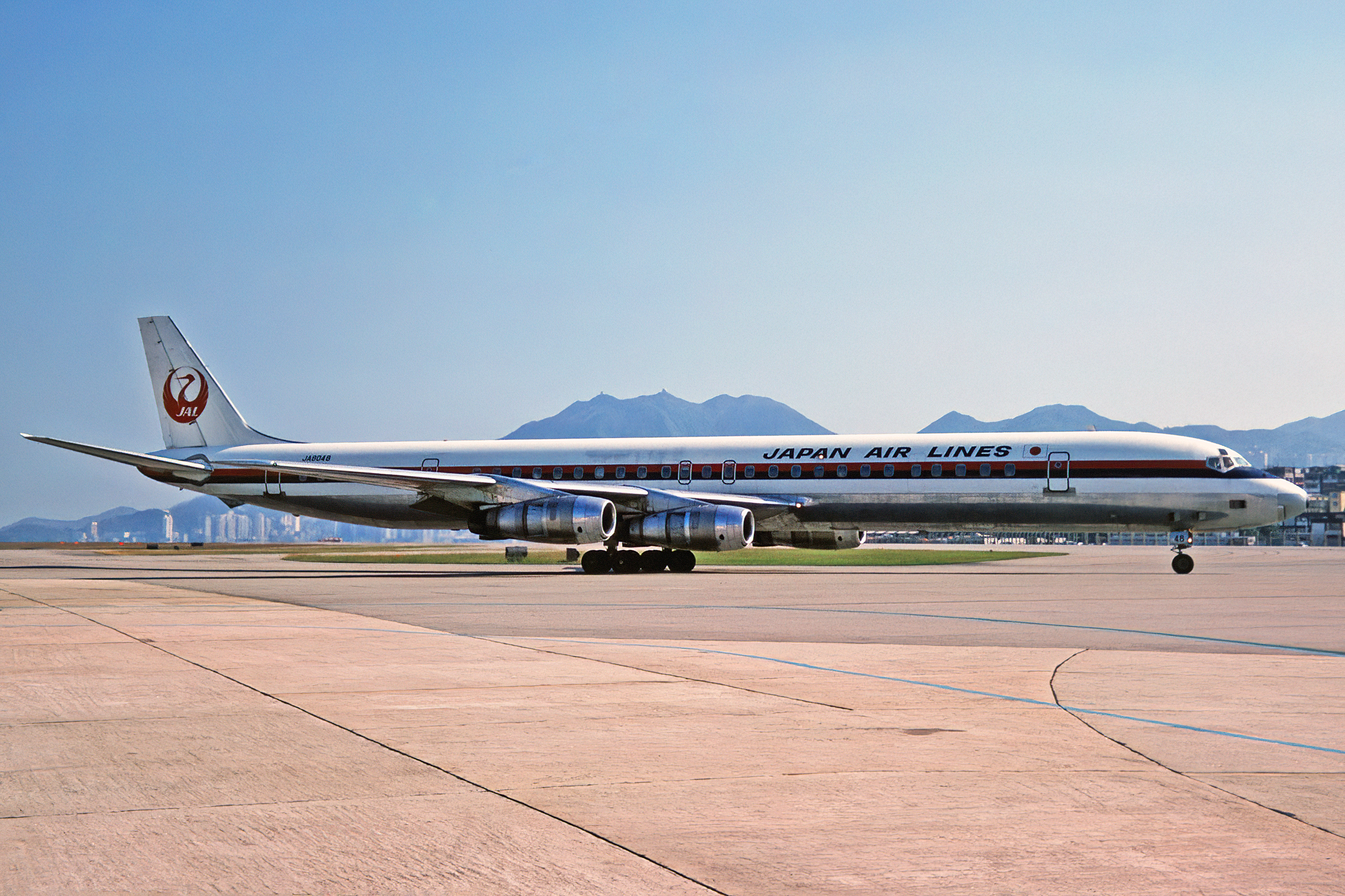 Taken at the old Kai Tak airport at Hong Kong (HKG). This aircraft was damaged in a runway overrun accident at Shanghai Hongqiao Airport in 1982 as Flight 792, and was eventually preserved in Shanghai.